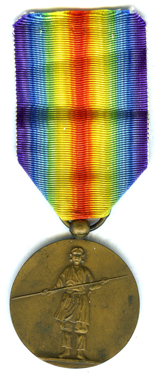 Interallied Victory Medal of WWI (Japan)